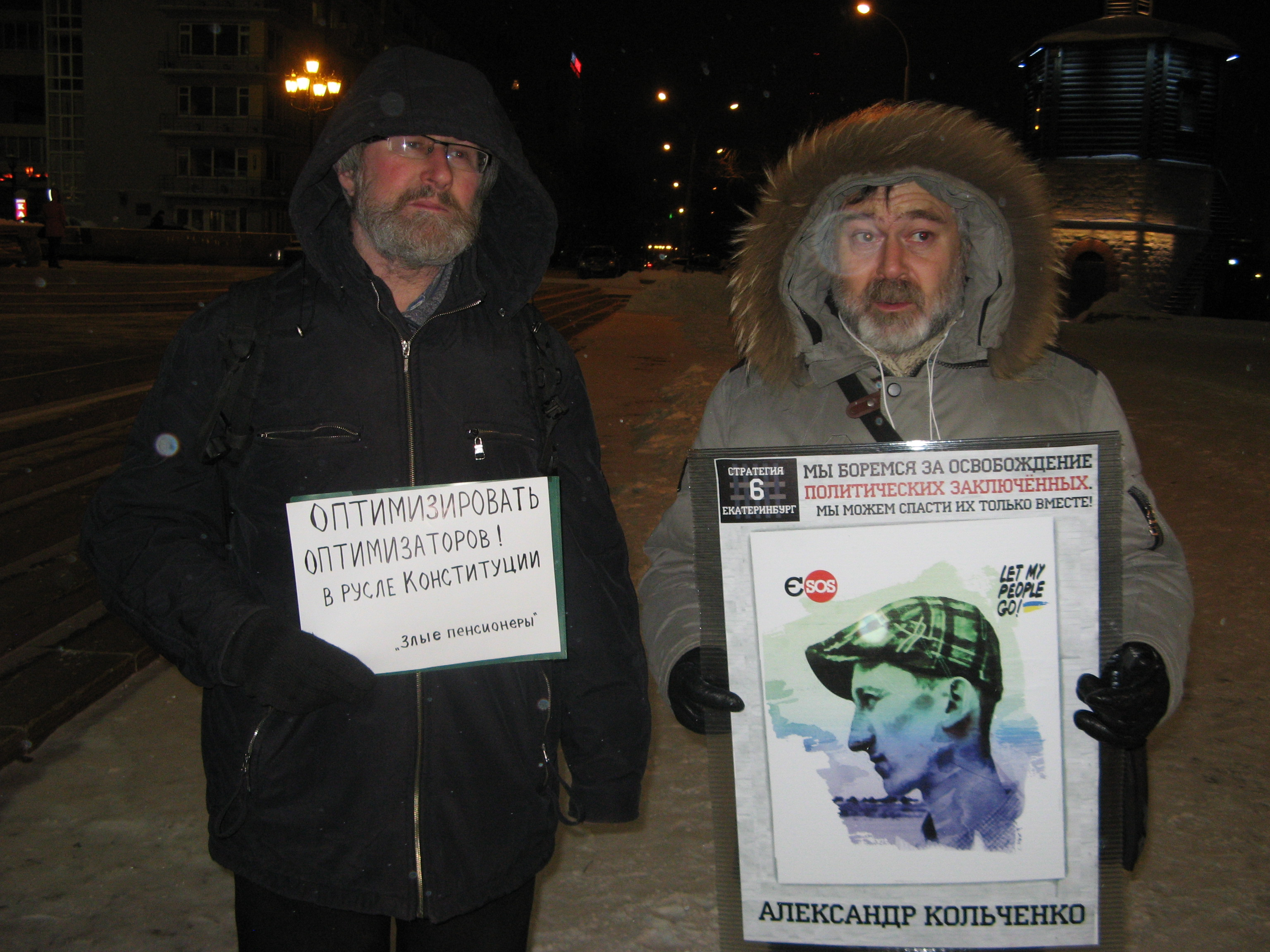 Monthly meeting "Strategy 6" in the support of Russian political prisoners. Ekaterinburg, February 6, 2017